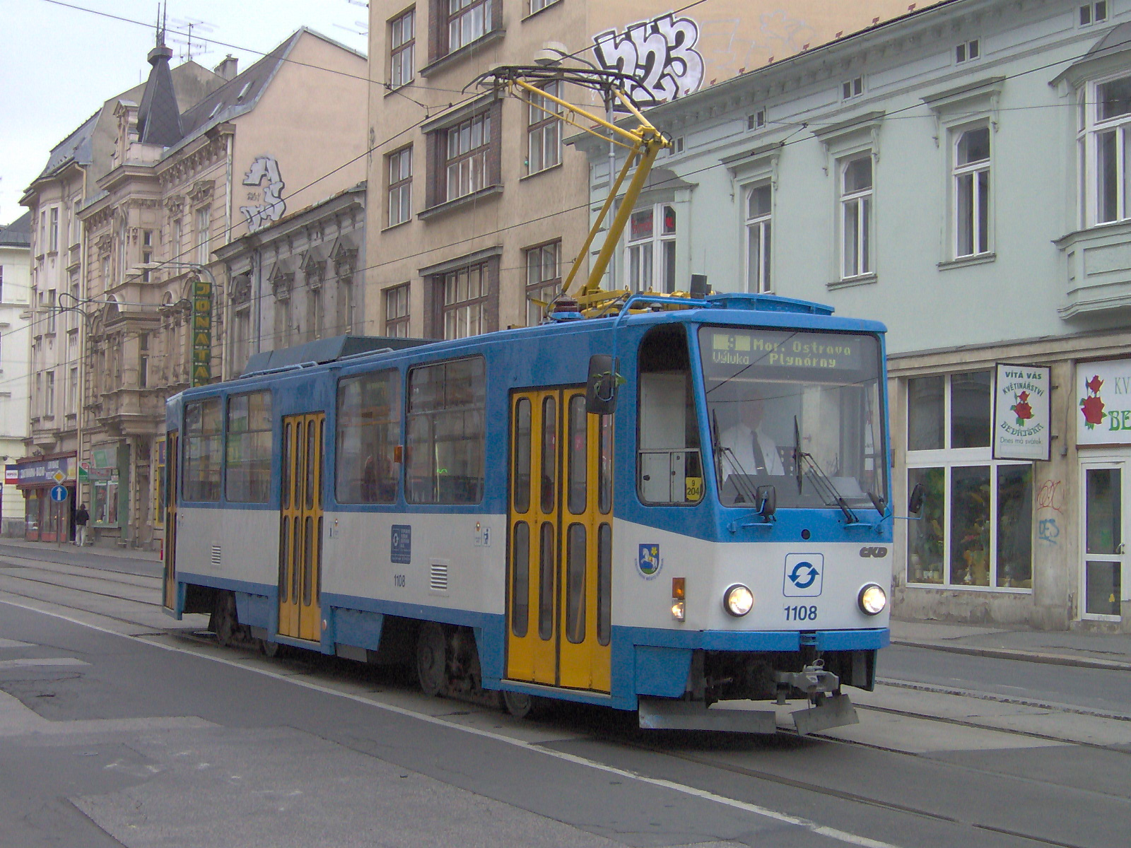 T6A5 tram in Ostrava